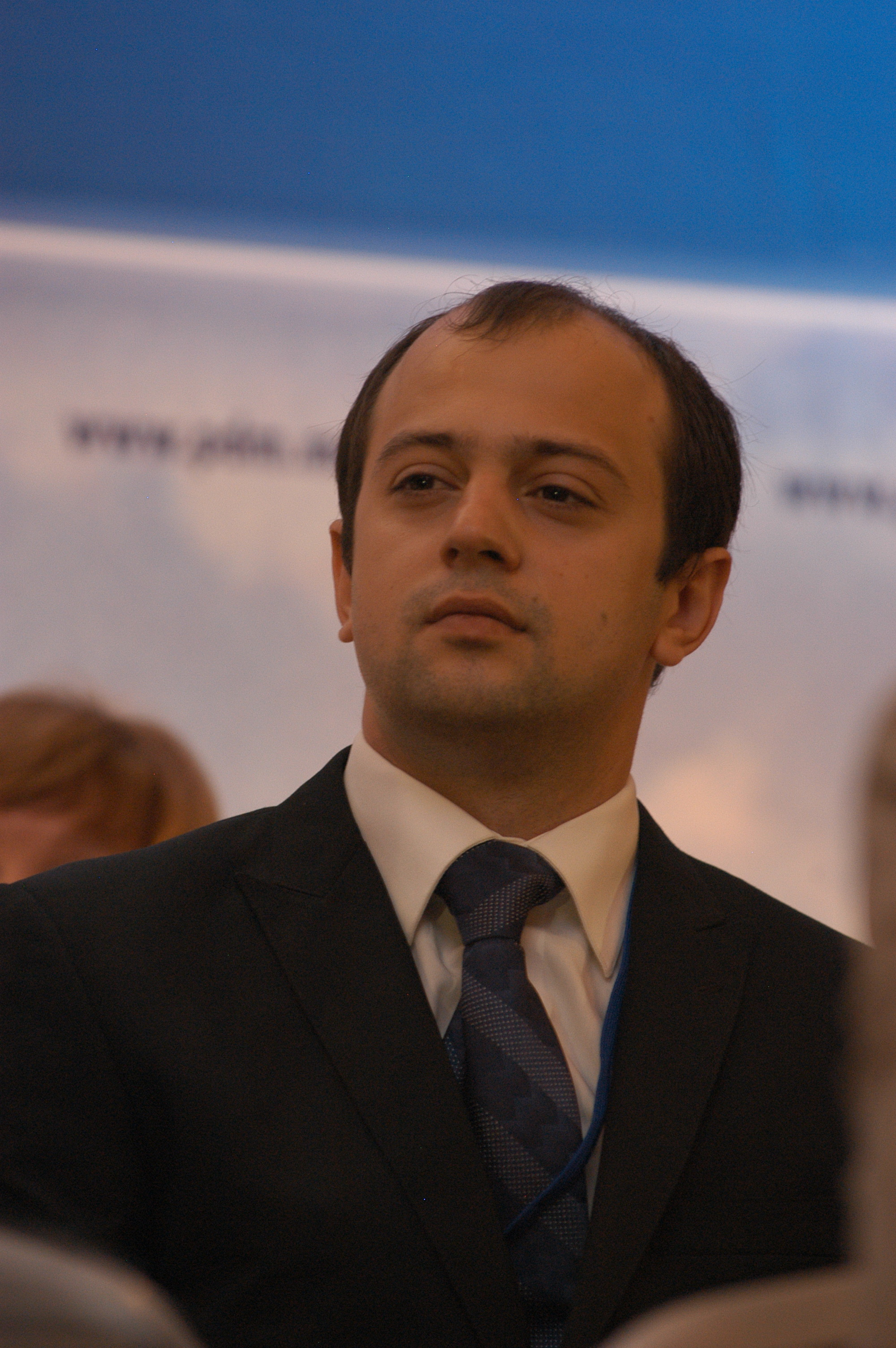 ȚULEA OLEG FOTO